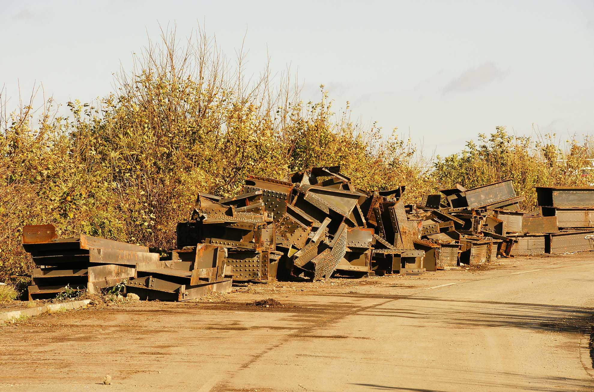 Alte Rheinbrücke Wesel